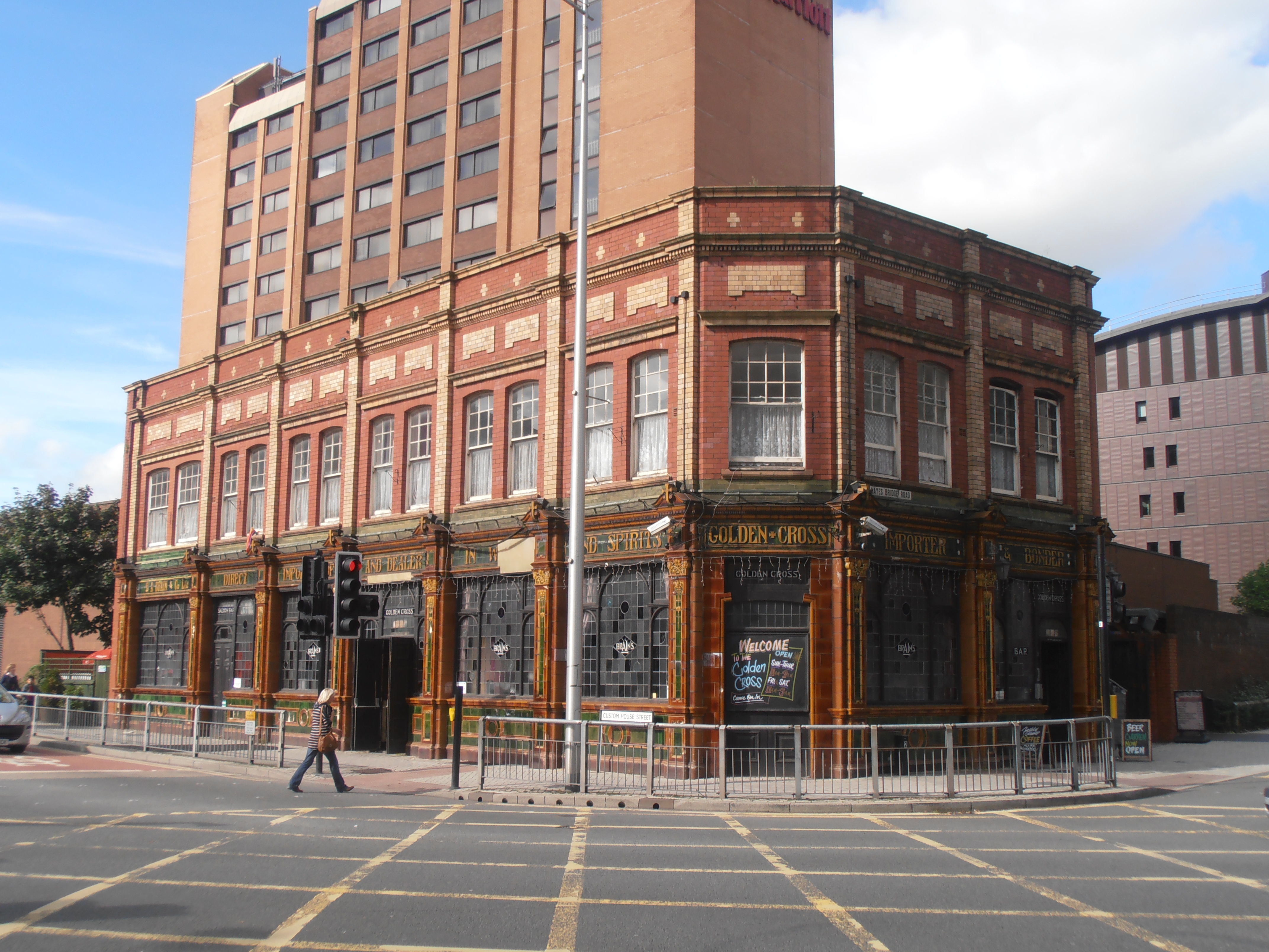 The Golden Cross public house in Cardiff, a Grade II-listed building